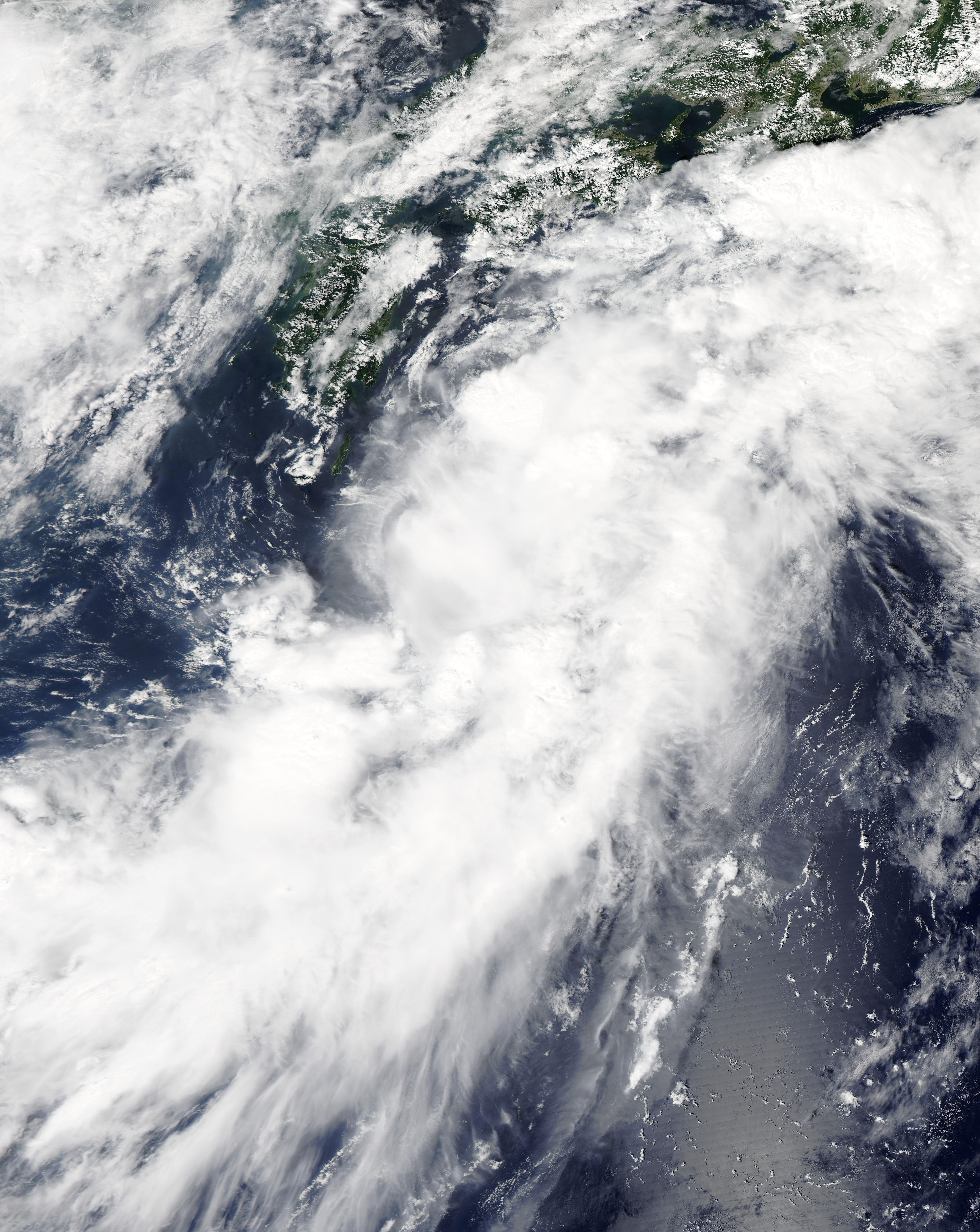 Tropical Storm Malou northeast of the Ryukyu Islands on September 7, 2016